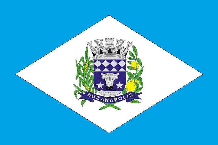 Flag of Suzanápolis, state of São Paulo, Brazil. This work is in the public domain in Brazil for one of the following reasons: It is a work published or commissioned by a Brazilian government (federal, state, or municipal) prior to 1983.(Law 3071/1916, art. 662; Law 5988/1973, art. 46; Law 9610/1998, art. 115) It is the text of a treaty, convention, law, decree, regulation, judicial decision, or other official enactment.(Law 9610/1998, art. 8) This image shows a flag, a coat of arms, a seal or some other official insignia. The use of such symbols is restricted in many countries. These restrictions are independent of the copyright status.